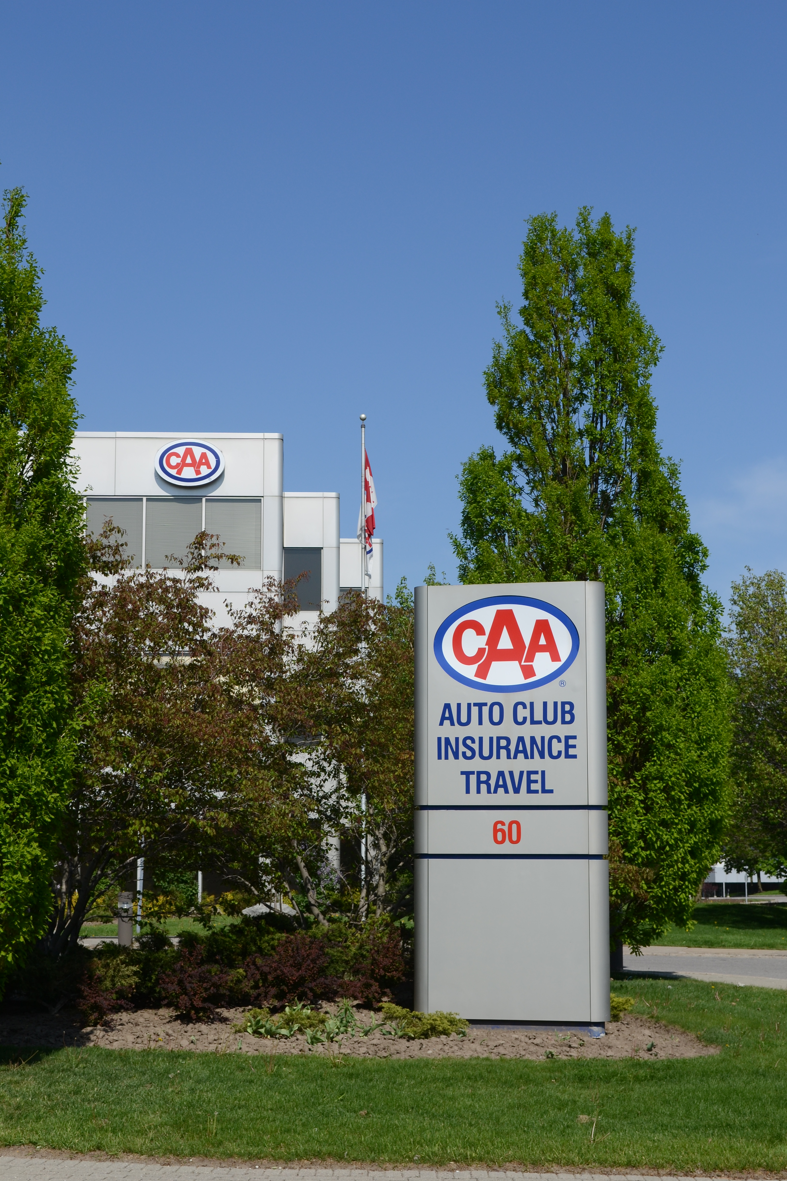 CAA South Central Ontario HQ 60 Commerce Valley Drive East, Thornhill, Ontario